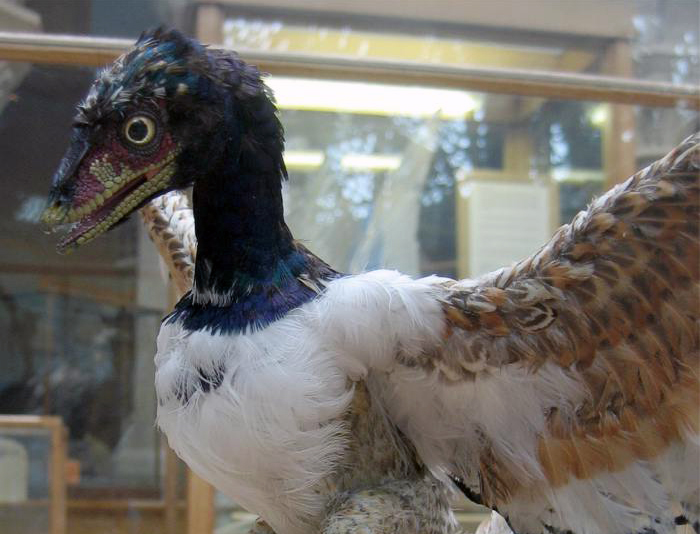 Model of Archaeopteryx lithographica in the Oxford University Museum of Natural History. Photograph taken by Michael Reeve, 30 May 2004.